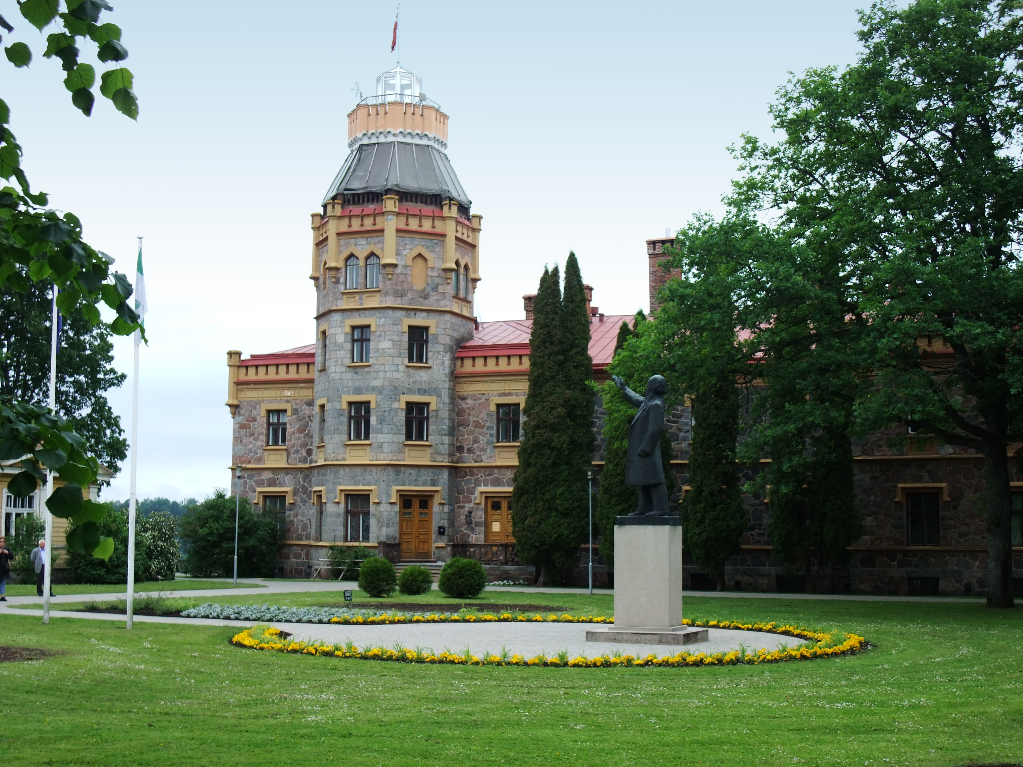 New Sigulda Castle in Latvia